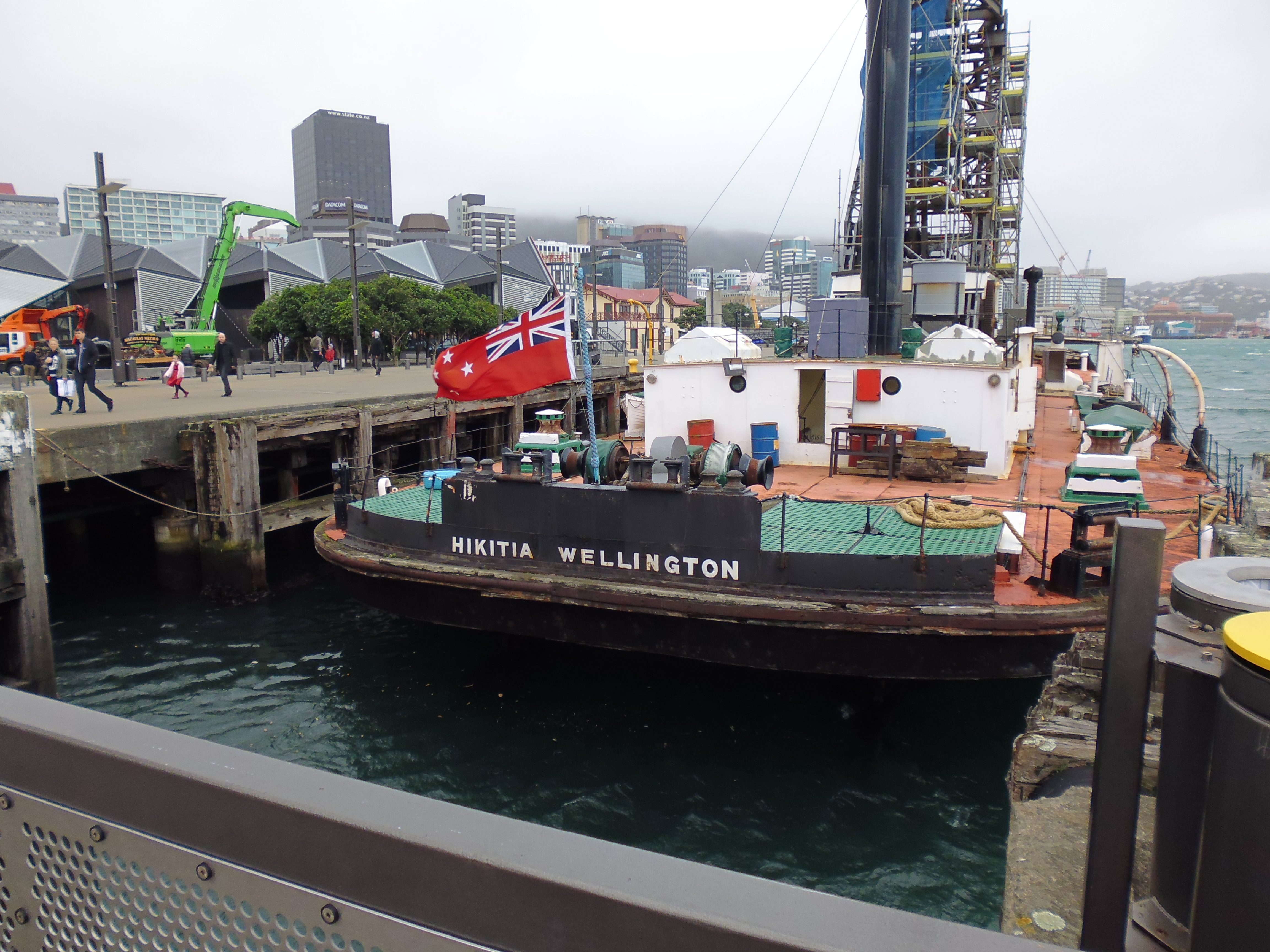 A view of the Hikitia.